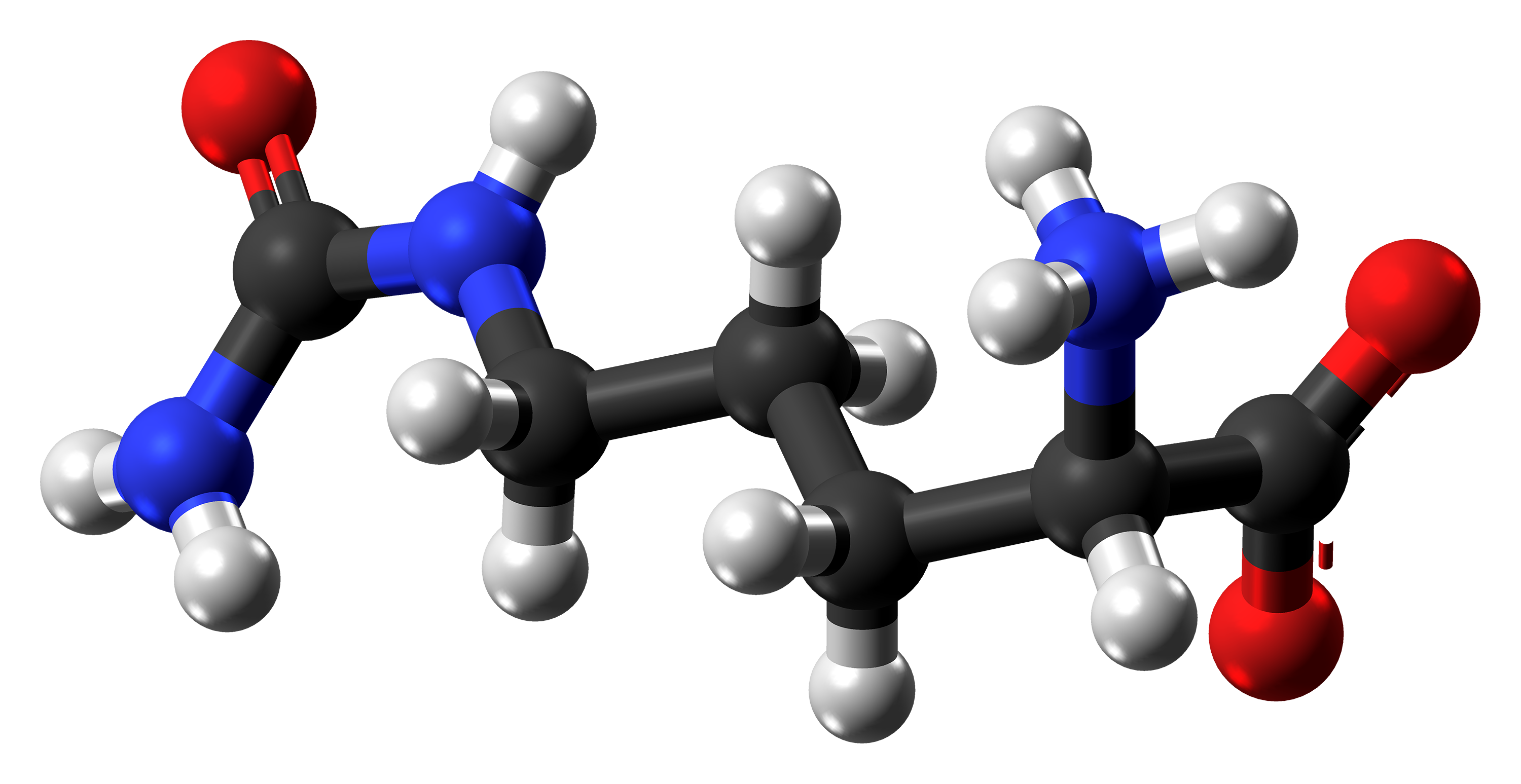 Ball-and-stick model of the citrulline molecule, a non-standard amino acid. This image shows the L-isomer as a zwitterion. Based on the crystal structure of L-citrullinium perchlorate, as determined by scientific study. Color code: Carbon, C: black Hydrogen, H: white Oxygen, O: red Nitrogen, N: blue